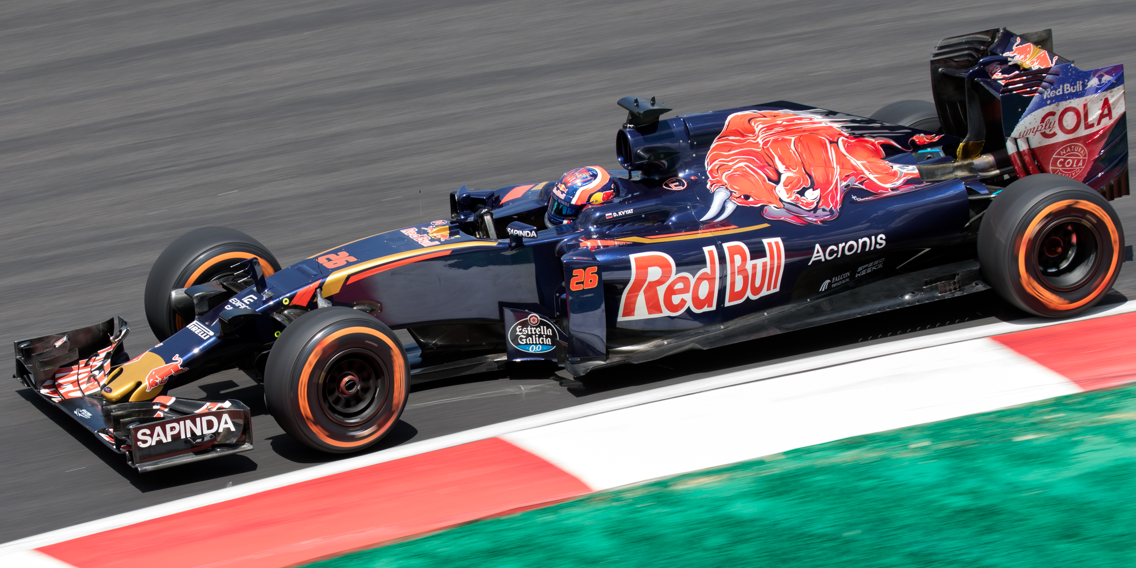 Formula One 2016 Rd.16 Malaysian GP: Daniil Kvyat (Toro Rosso)